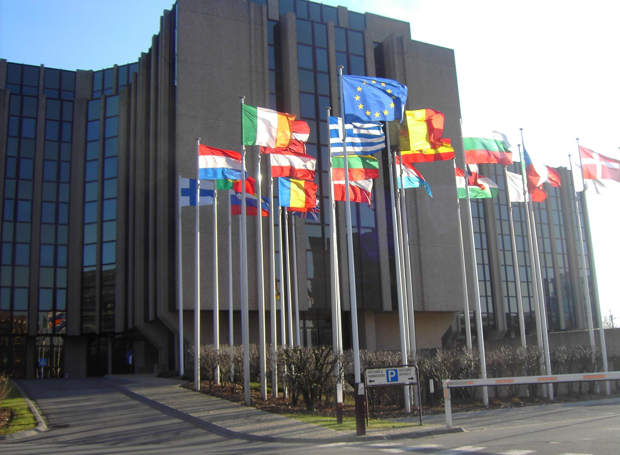 European Court of Auditors